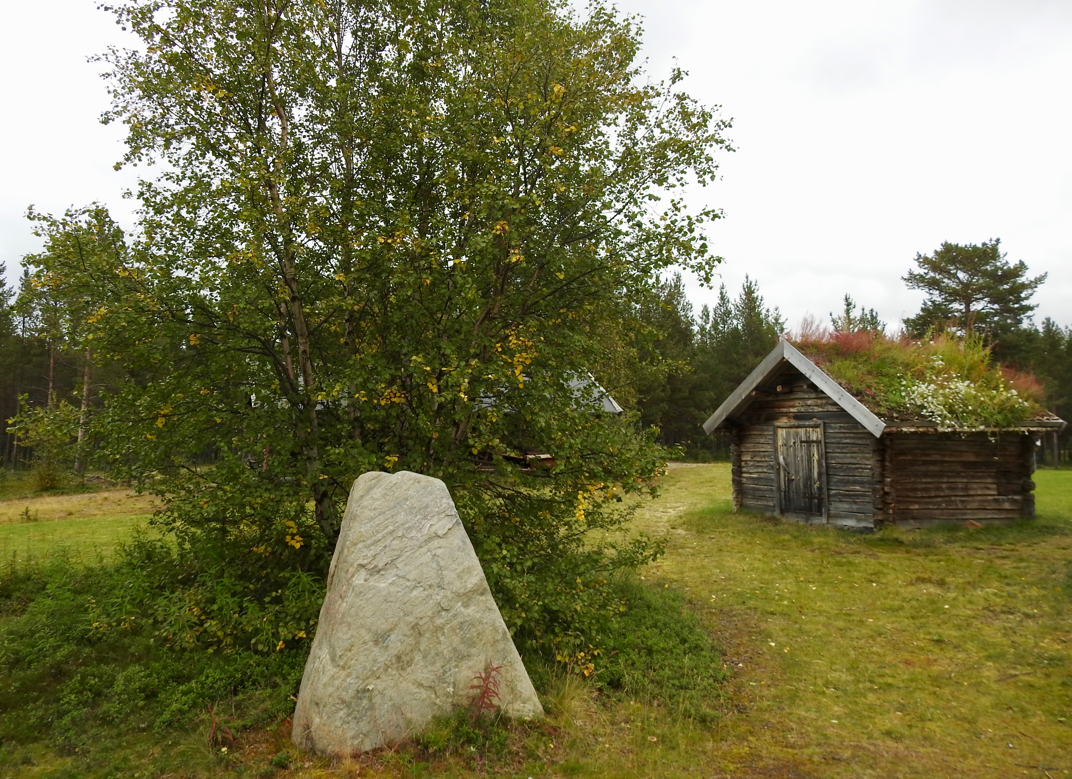 Foundation stone for the Mamma Karasjok Center at the Sami Samliger Museum in Karasjok.